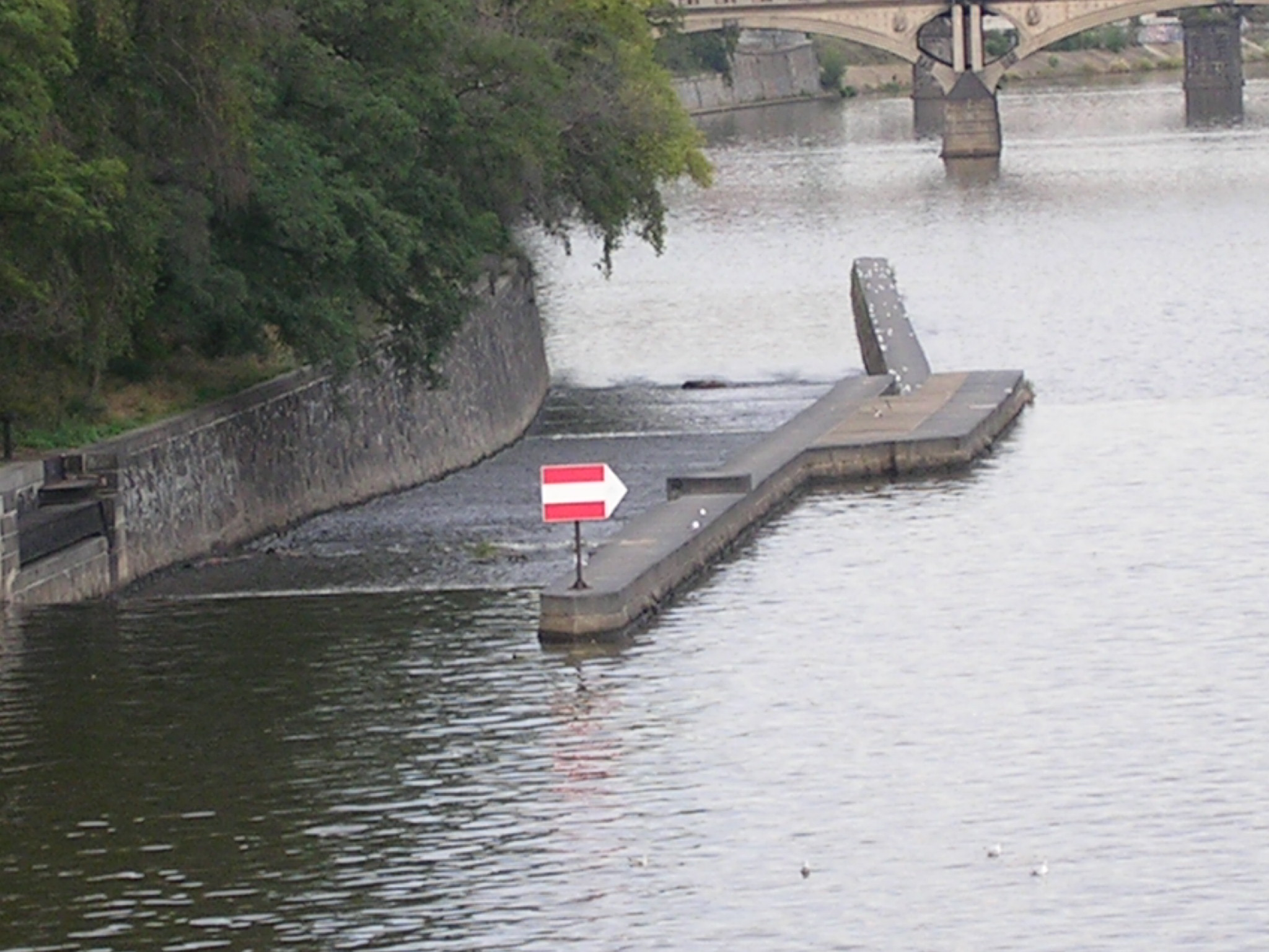 Prague, the Czech Republic. Weir near Štvanice Island.